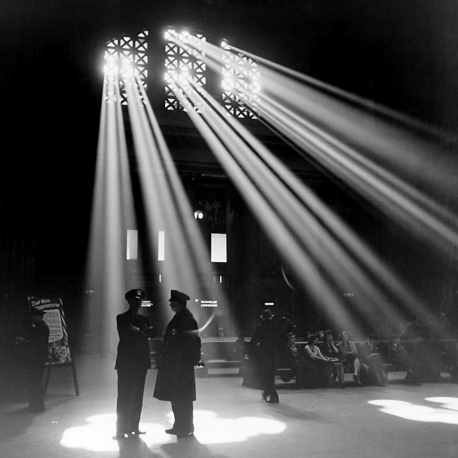 Chicago, Illinois. In the waiting room of the Union Station